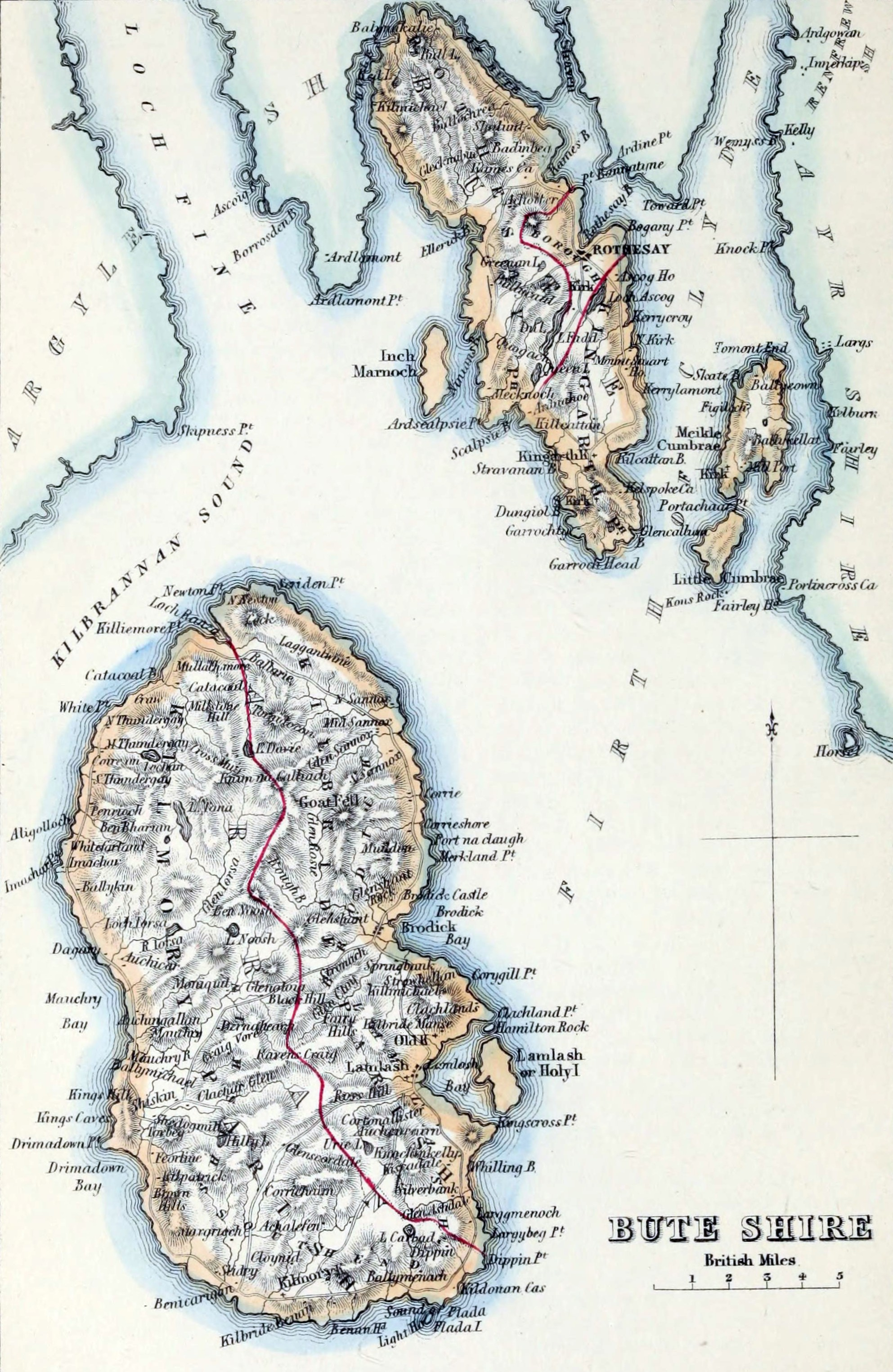 BUTESHIRE map. The Imperial gazetteer of Scotland. Vol.I. by Rev. John Marius Wilson.